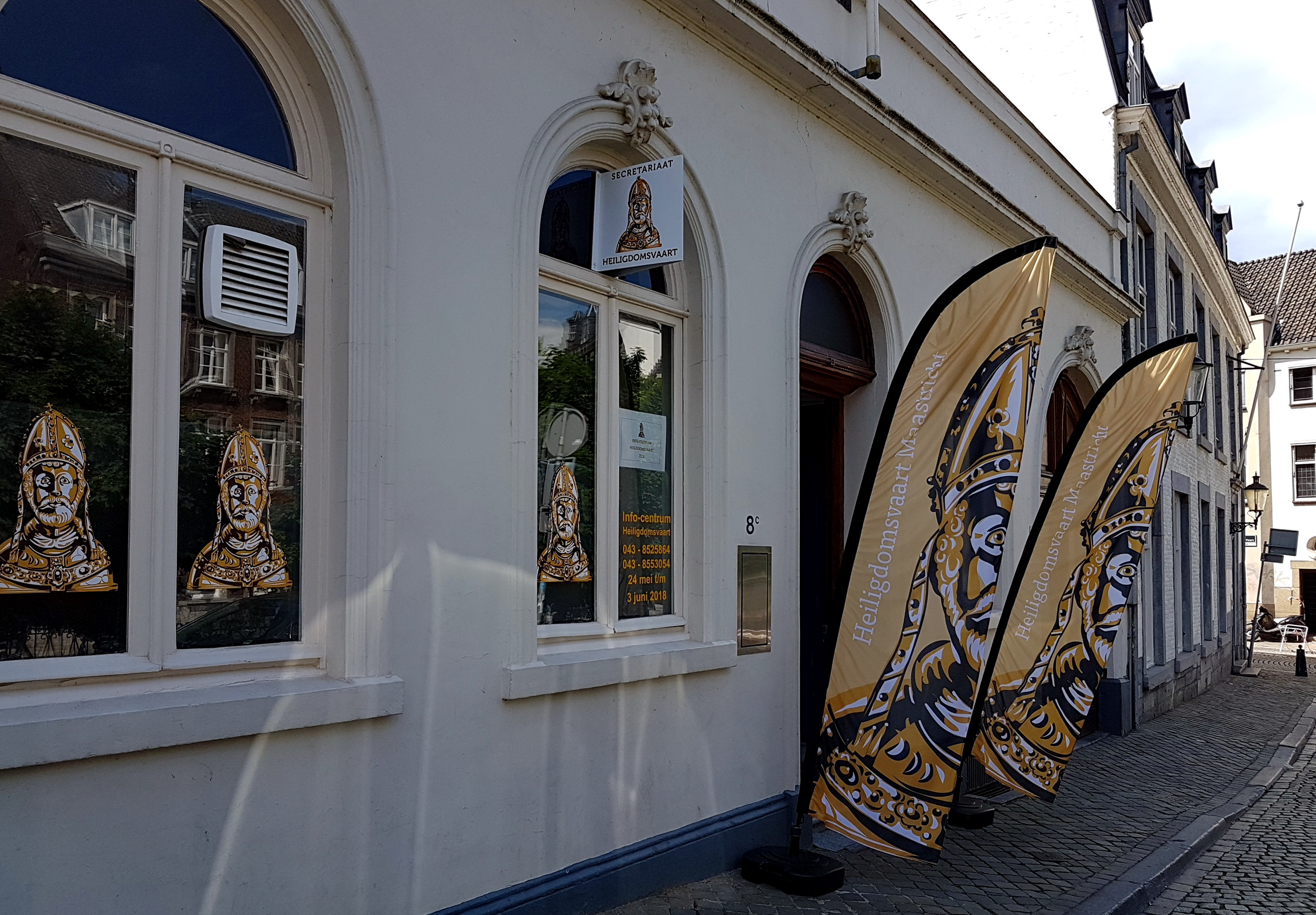 View of the organizational office and information centre of the 2018 Heiligdomsvaart ("Relics Pilgrimage") at Keizer Karelplein in Maastricht, Netherlands. The banners and posters carry an image of the reliquary bust of Saint Servatius. The history of the Heiligdomsvaart goes back to the Middle Ages. The first 'modern' version of this seven-yearly, ten-day catholic pilgrimage took place in 1874. The 2018 Heiligdomsvaart was the 55th modern edition.